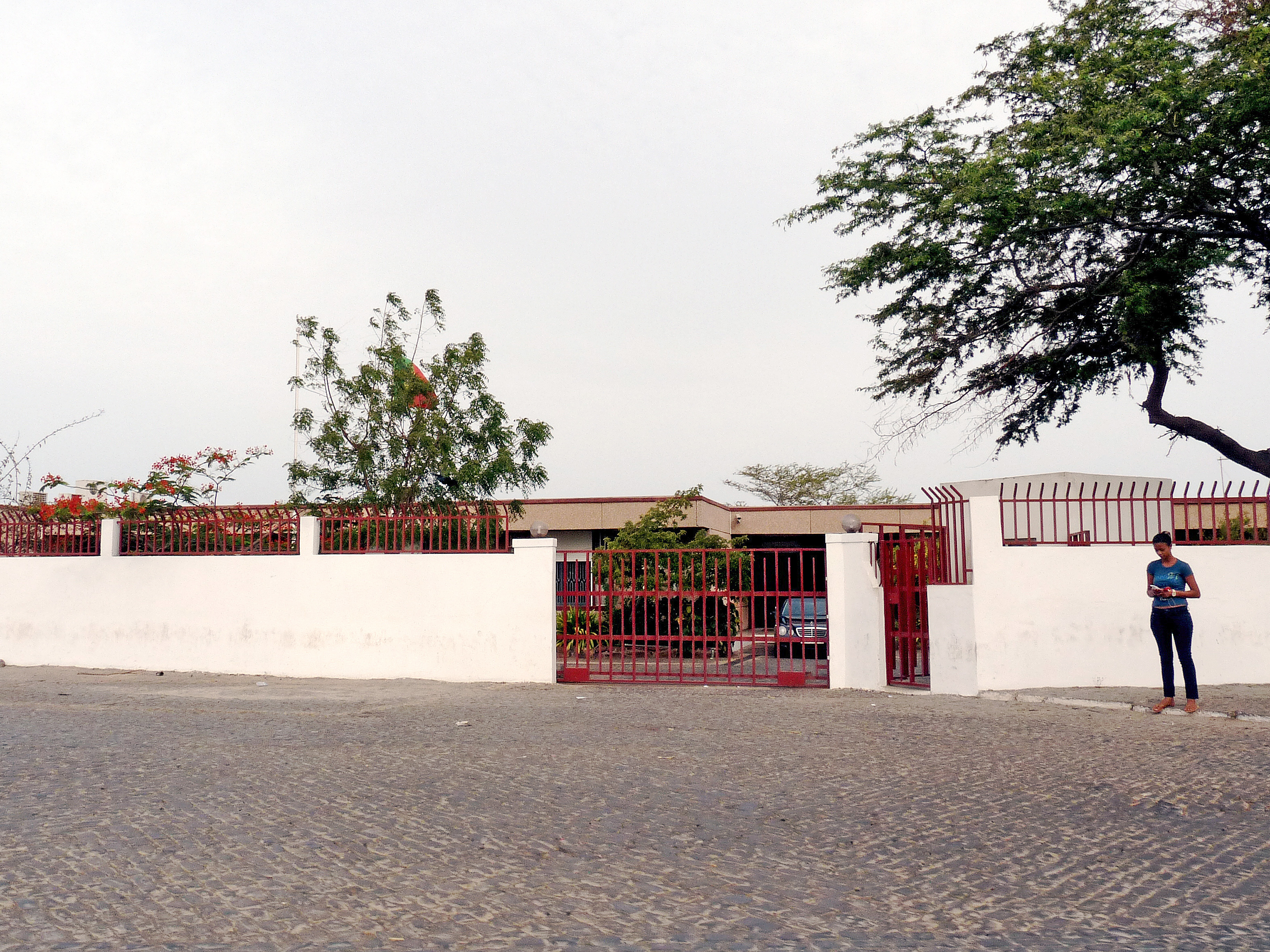 Portuguese embassy in Praia, Santiago island, Cape Verde